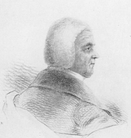 John Latham